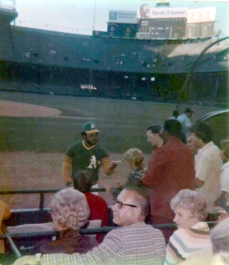 Reggie Jackson signing autographs at Tiger Stadium on August 31, 1974.